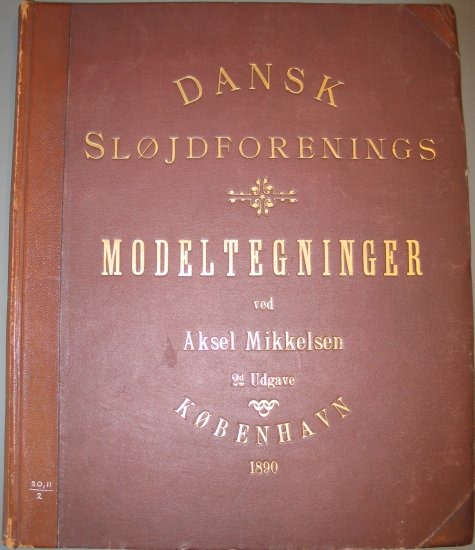 Book with collection of model drawings for sloyd published 1890 by Aksel Mikkelsen (†1929)